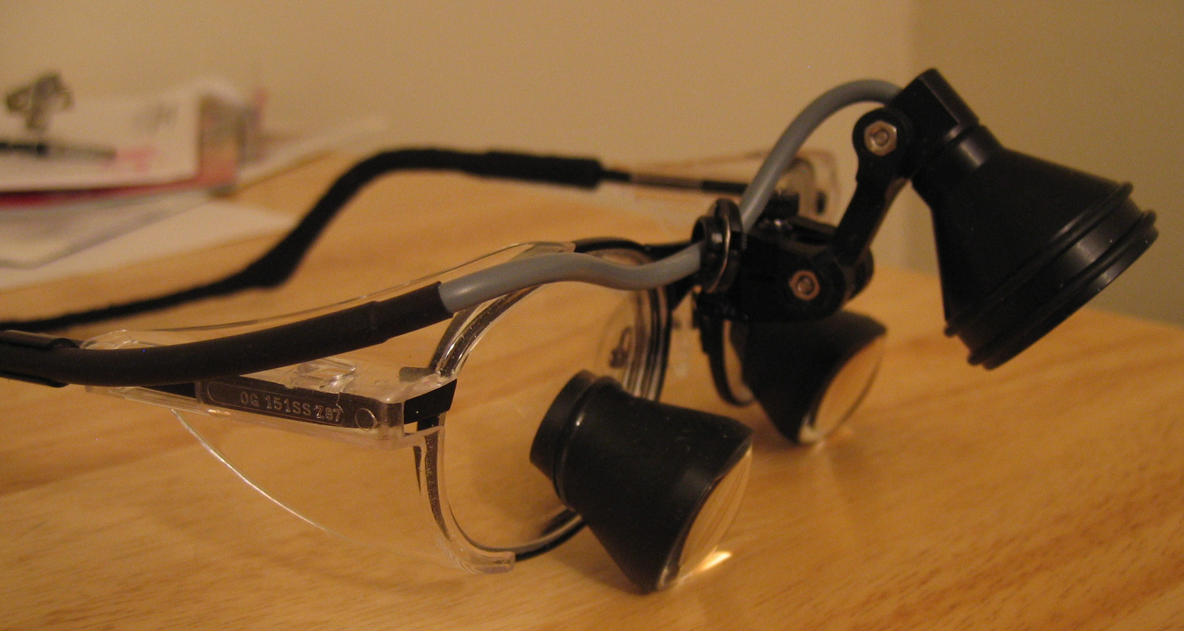 Dental loupes